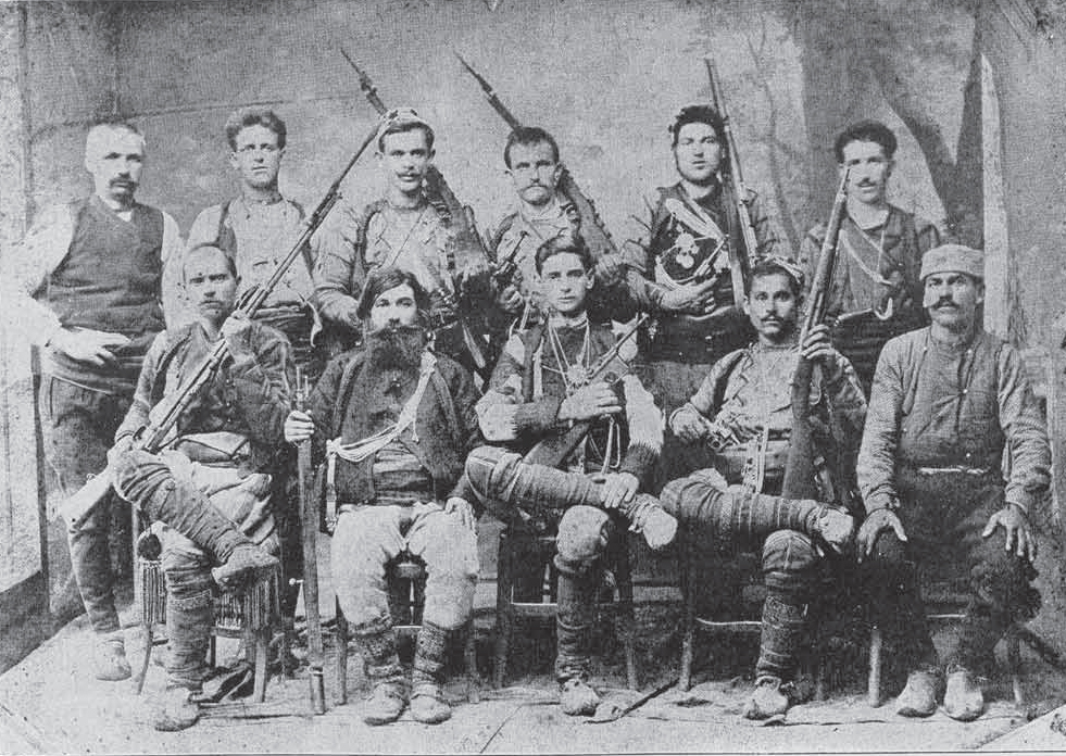 United cheti of IMARO of Delcho Kotsev, Petar Samardzhiev, Hristo Chernopeev, captain Trenev, Nikola Zhekov, Panayot Baychev